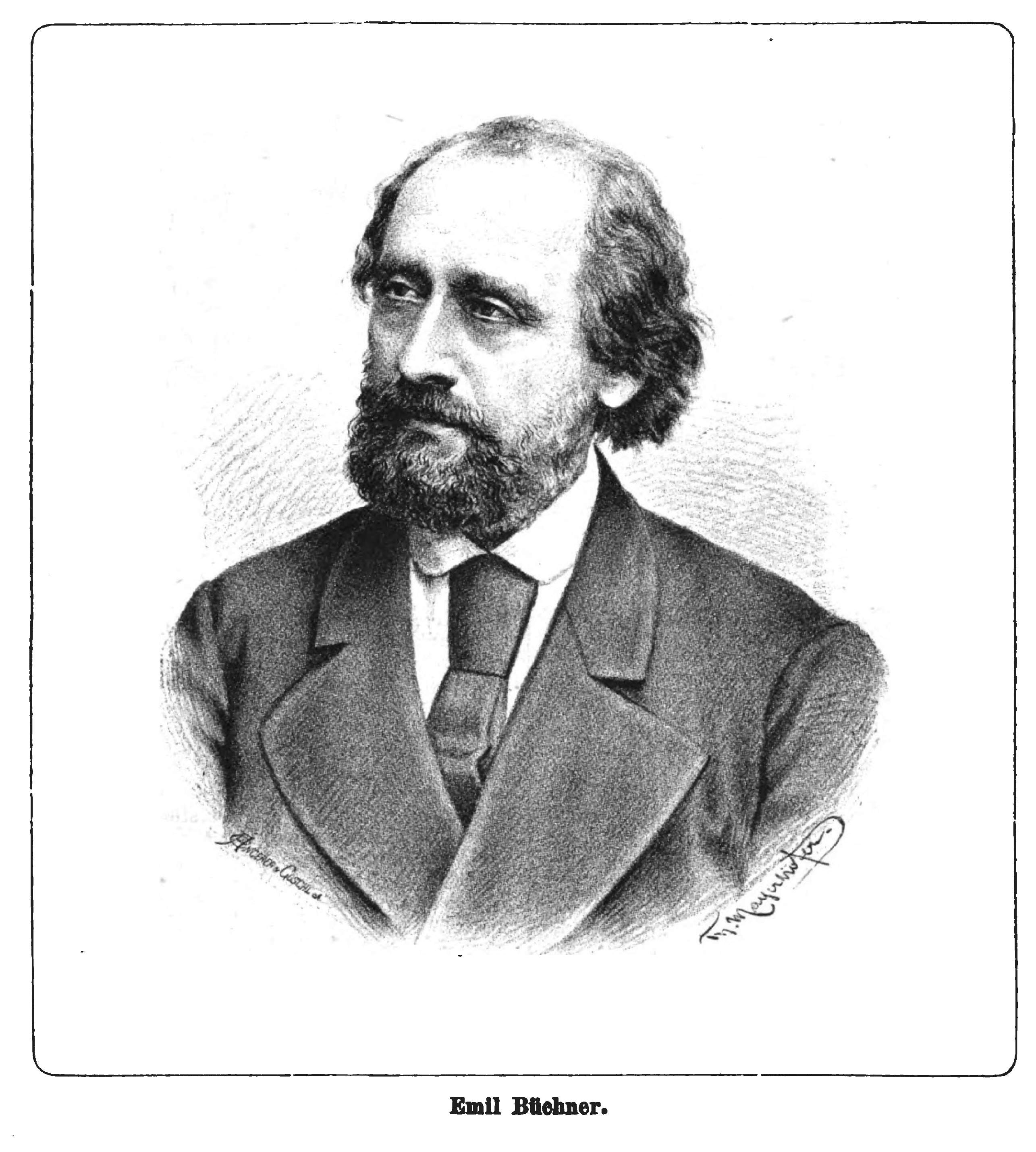 Emil Adolf Büchner (December 7, 1826, Osterfeld – June 9, 1908, Erfurt), who was a German conductor and bandmaster. Engraving by Theodor Mayerhöfer.